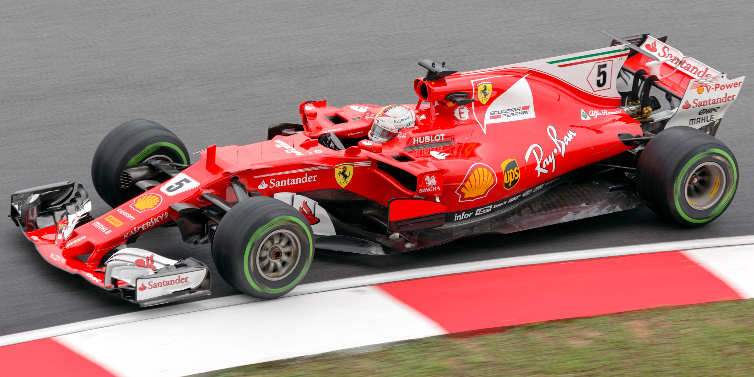 Formula One 2017 Rd.15 Malaysian GP: Sebastian Vettel (Ferrari)